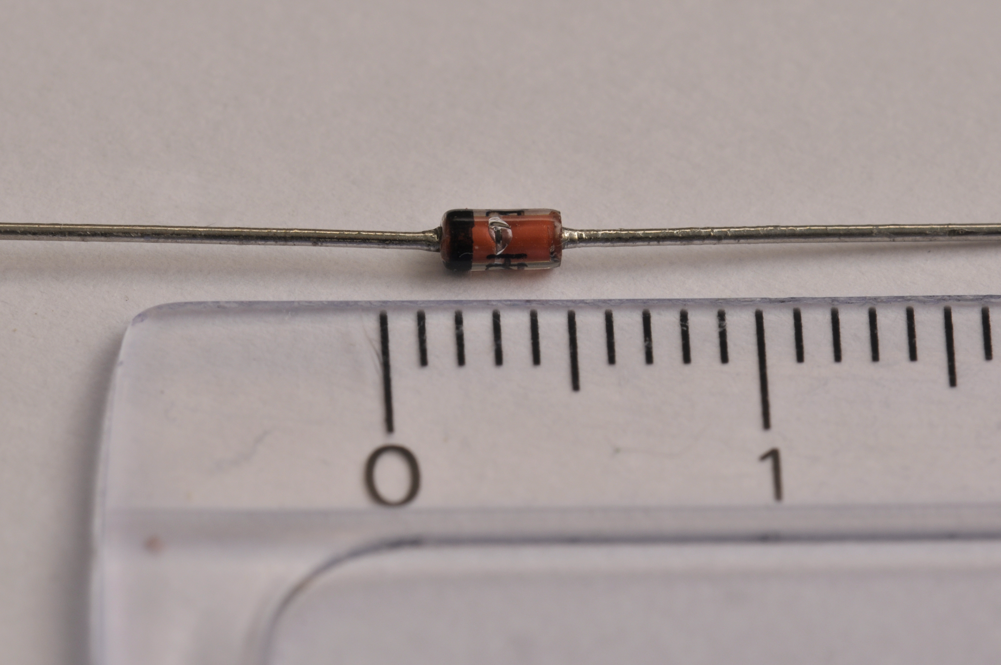 Zener diode C12 PH